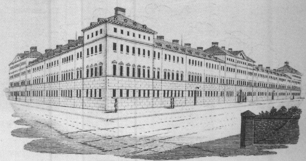 Print of the munich Türkenkaserne barracks around 1840.